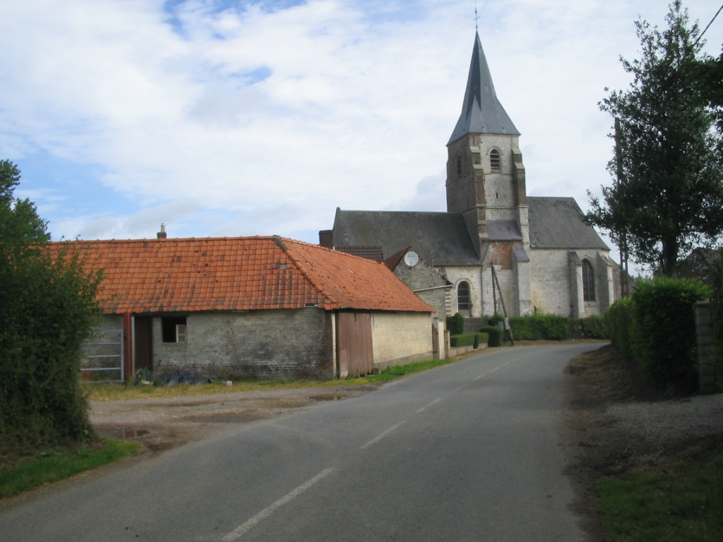 Église Notre-Dame-du-Rosaire de Canlers